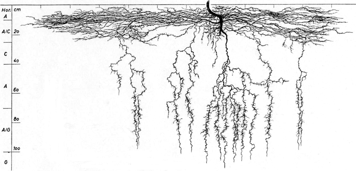 Root system of Cannabis sativa, hemp, before flowering, height 180 cm, exposed in early August in a hemp field in Klagenfurt on dehydrated Auanmoor. Soil profile: Hor .: A - 0-10 cm humus, loamy sand, humus-feinmodrig mullartig, A/C - 25 cm slightly humous, loamy sand. C - 40 cm deposited pebbly coarse sand. Buried Profile: A - 40-70 cm thick humus, loamy sand, humus feinmodrig, weak Gyttja-like against the lower edge, A/G - 100 cm slightly humous, gravelly coarse sand groundwater moist, G. feinsandiger coarse sand.